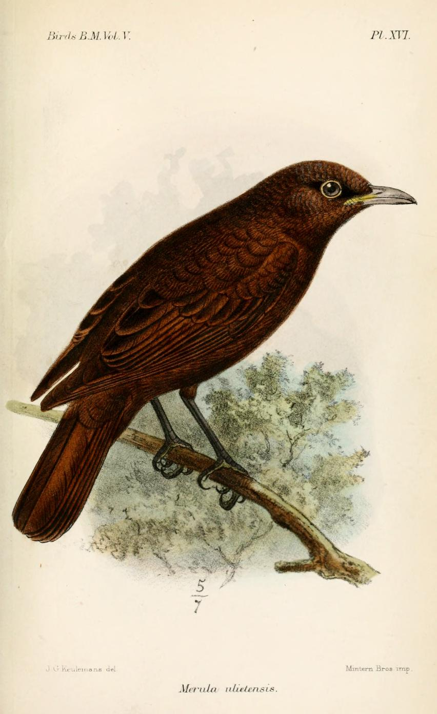 Bay "Thrush"